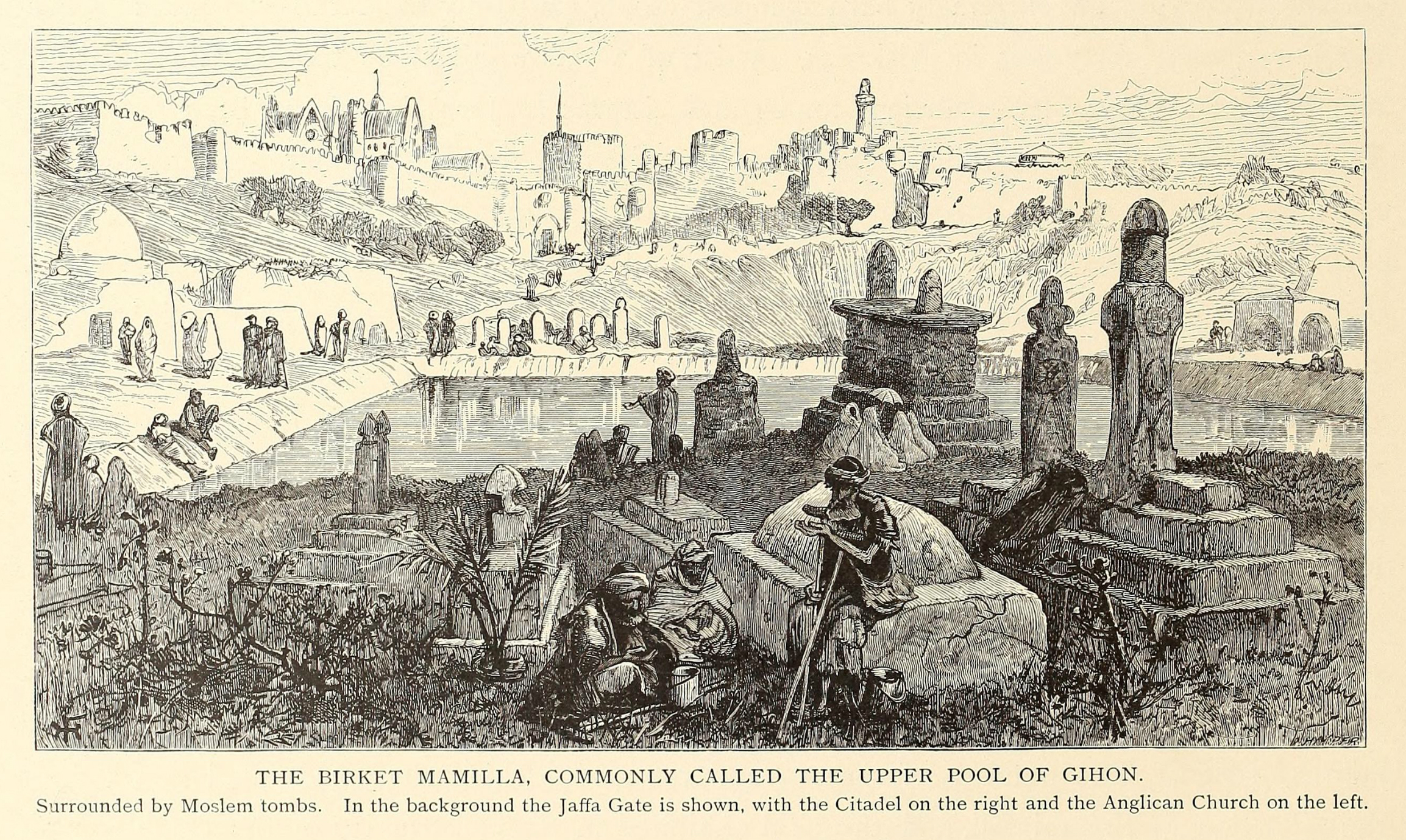 Caption: the birket mamilla, commonly called the upper pool of gihon.Surrounded by Moslem tombs. In the background the Jaffa Gate is shown, with the Citadel on the right and the Anglican Church on the left.